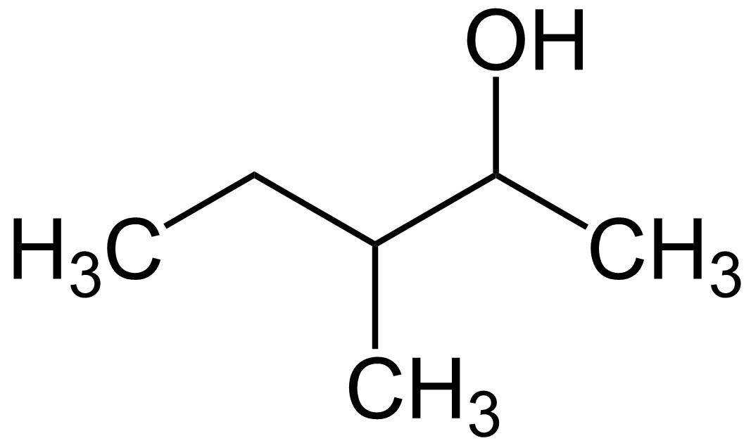 Structural formula of 3-methyl-2-pentanol, a hexanol isomer